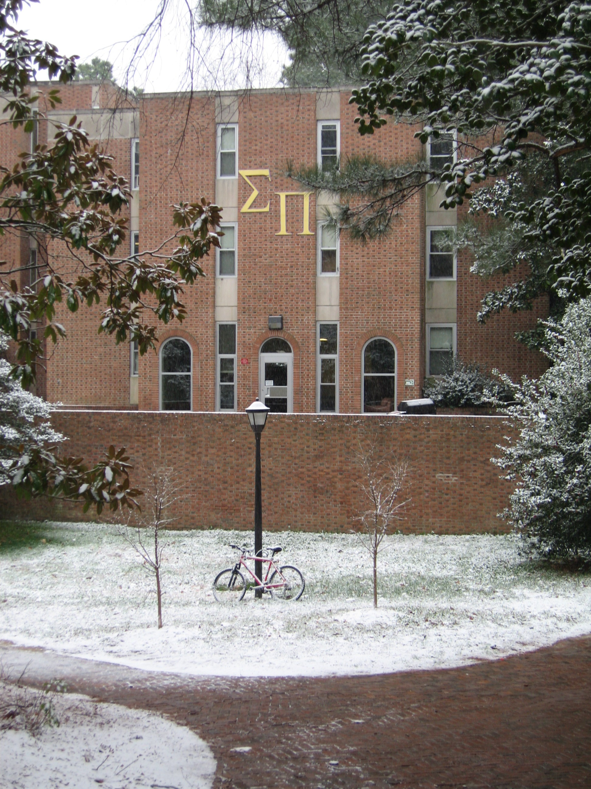 The fraternity Sigma Pi at the College of William & Mary in Williamsburg, Virginia, USA.